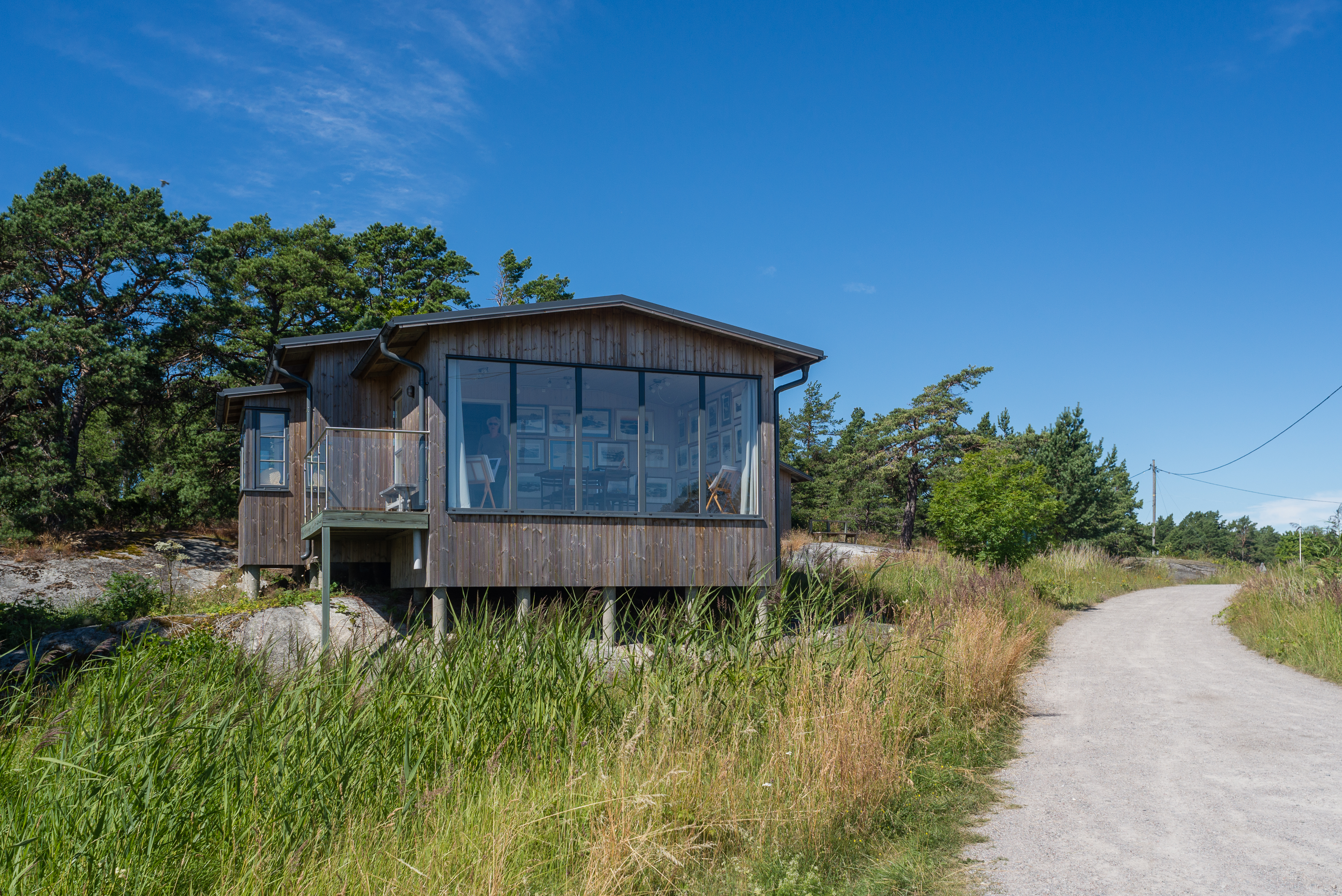 Roland Svenssons museum, Ramsmora (Möja)